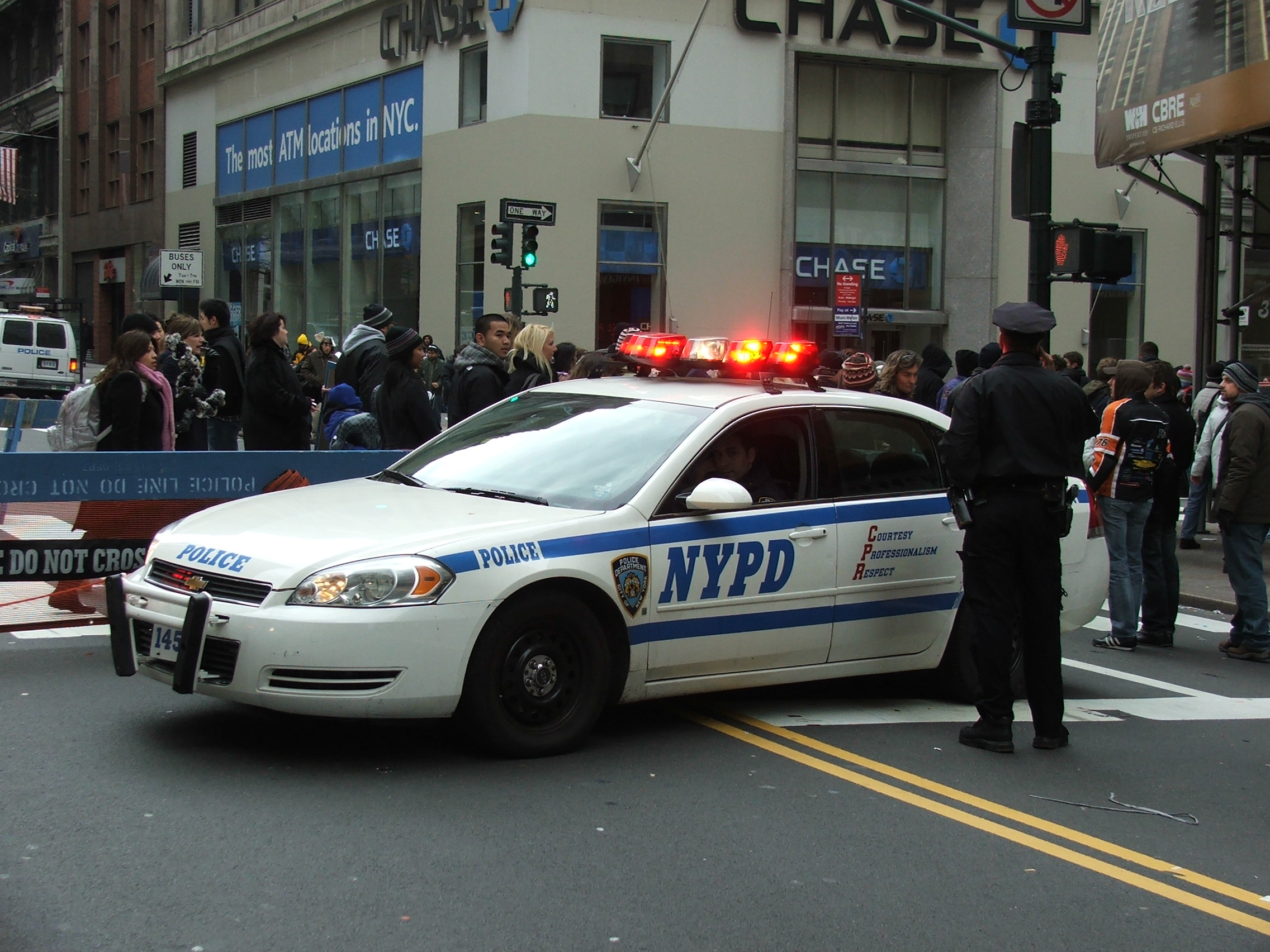 NYPD - New York police car in 2008.